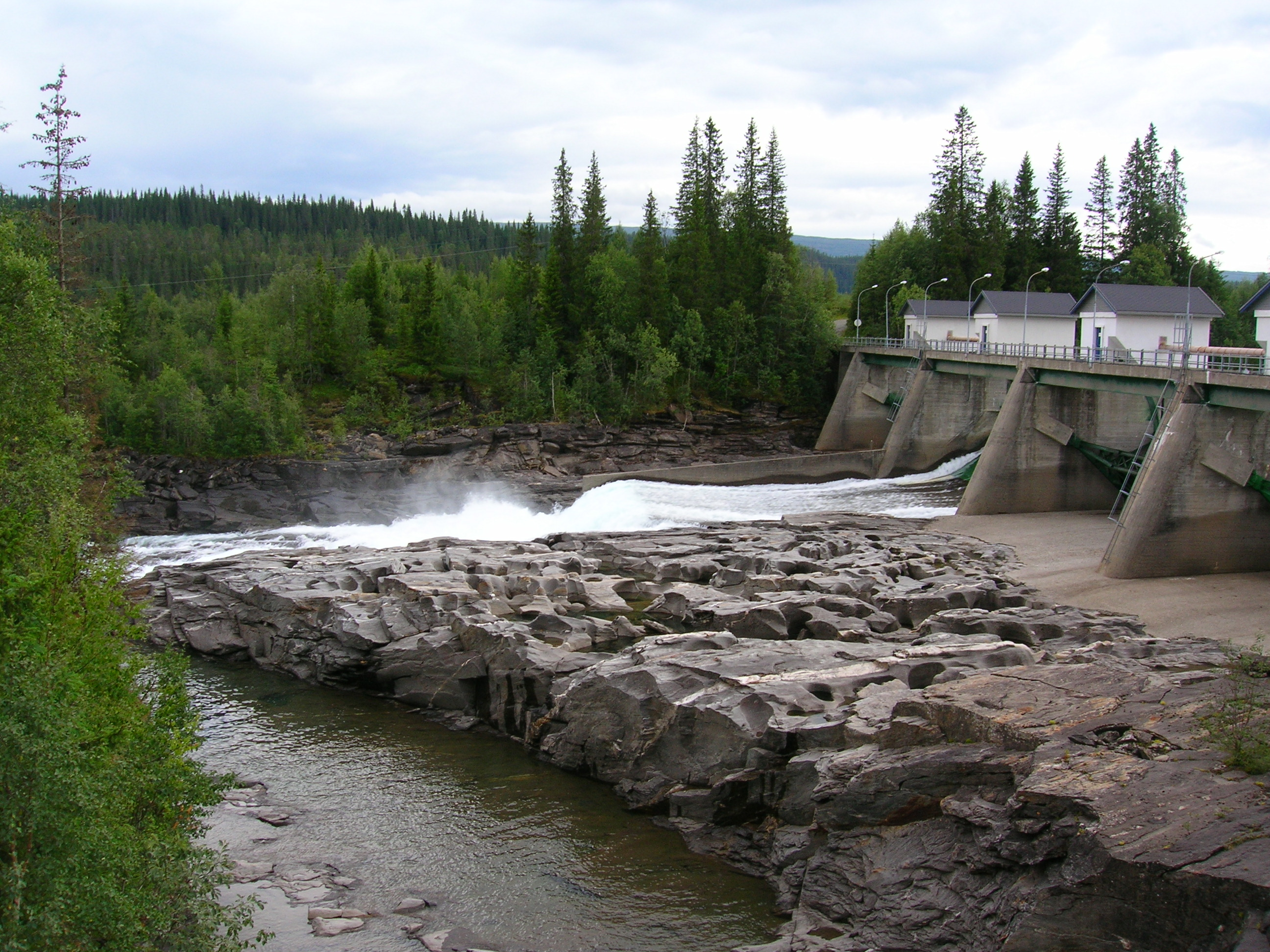 The power station (hydroelectricity) at Reinforsen. Rana municipality, county of Nordland, Norway, Photo 31 July, 2007 with a Nikon Coolpix 5600 5,1 Megapixel camera.